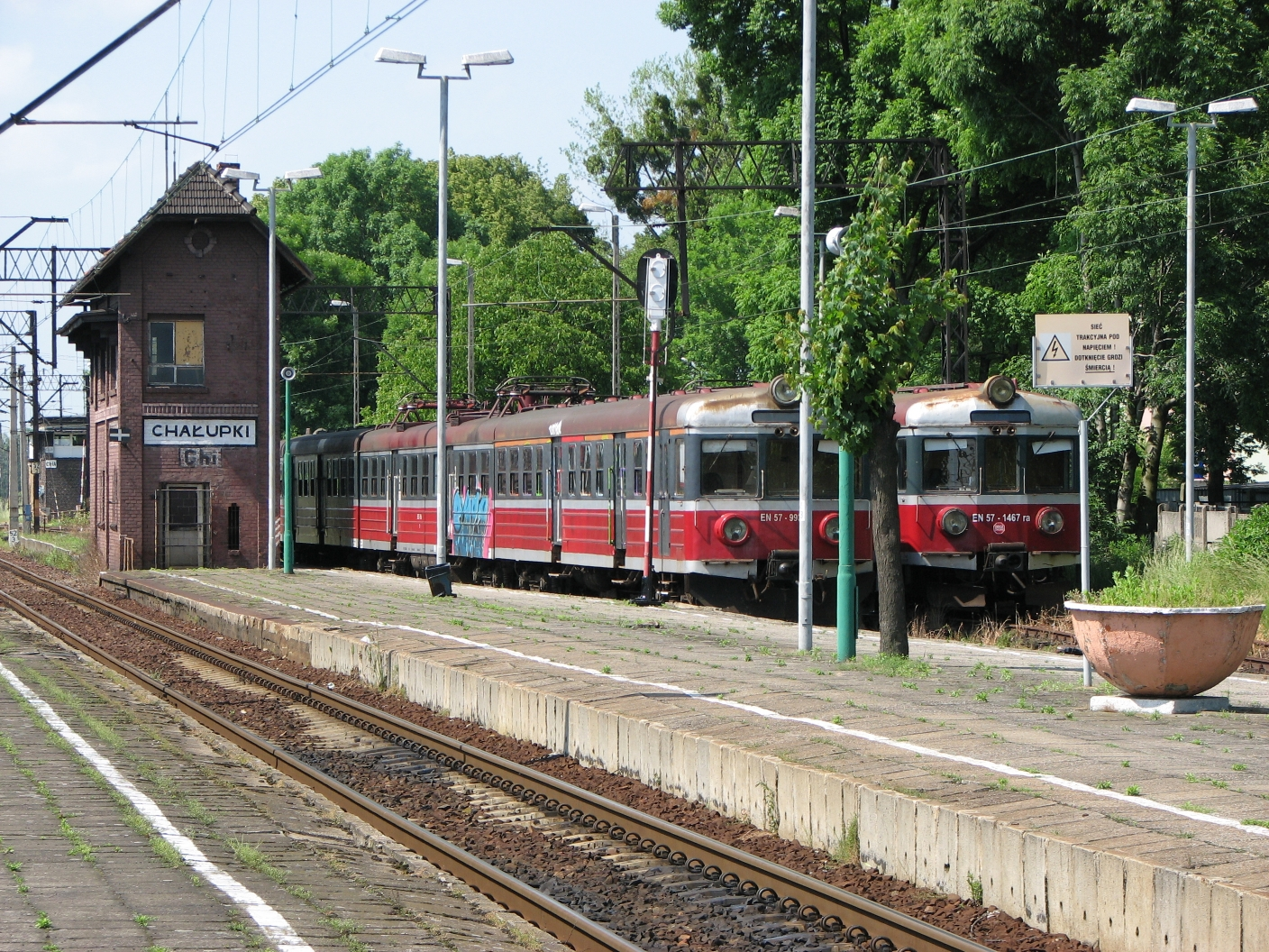 Chałupki PKP